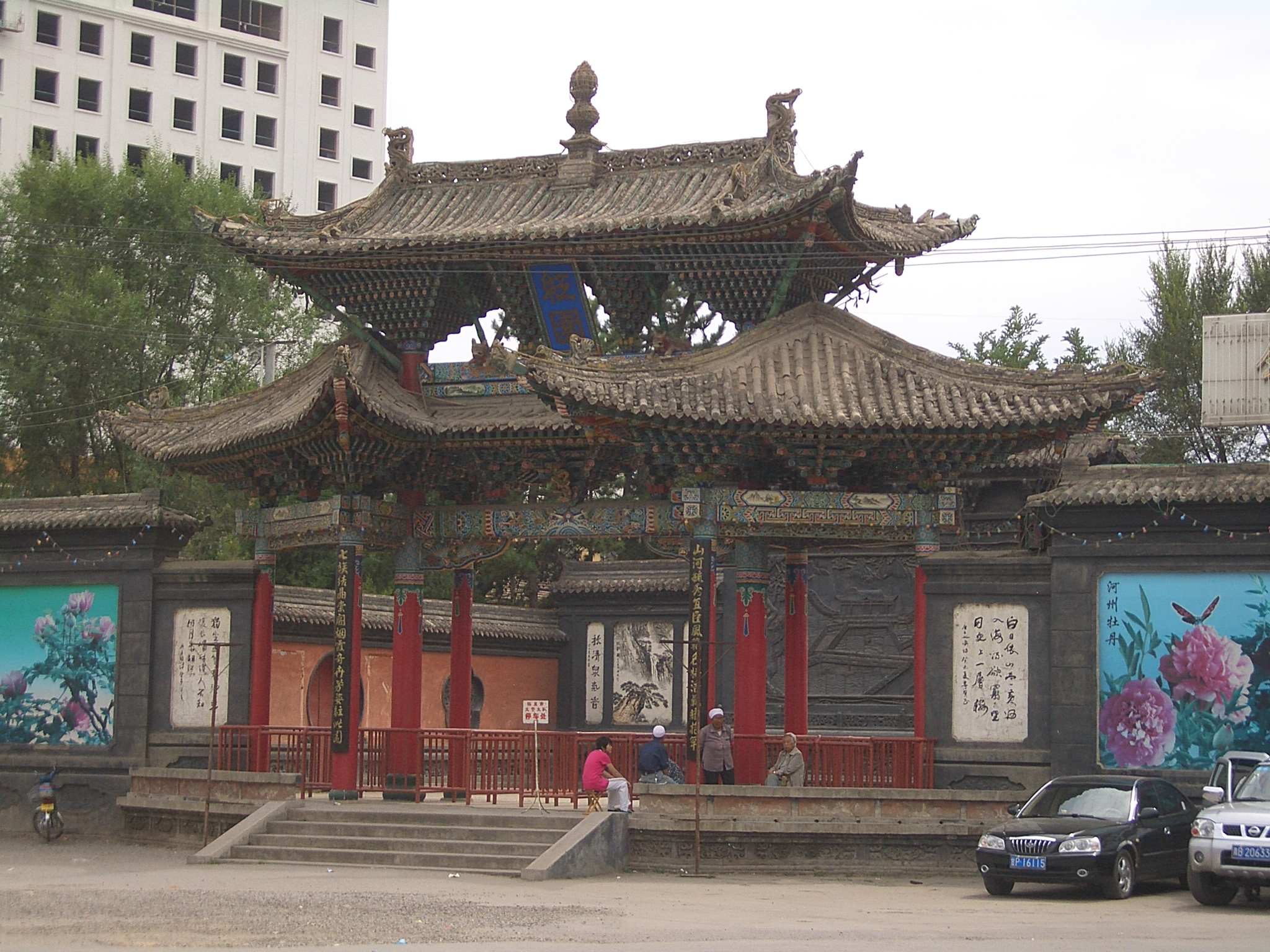 Apparently, the easterngate of Hongyuan Park, in Linxia City